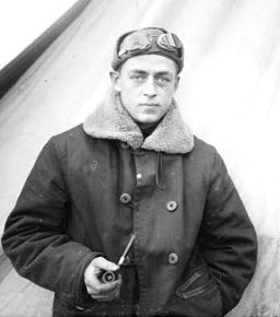 Wrigley, Philip K.--(Philip Knight),--1894-1977 Air pilots--Illinois--Chicago--1910-1919. Chicago (Ill.)--1910-1919. Portraits. Dry plate negatives. Gelatin dry plate negatives. United States--Illinois--Cook County--Chicago. MEDIUM 1 negative : b&w, glass ; 4 x 5 in. REPRODUCTION NUMBER DN-0069250 REPOSITORY Chicago History Museum, 1601 North Clark Street, Chicago, IL 60614-6038. DIGITAL ID (original negative) ichicdn n069250